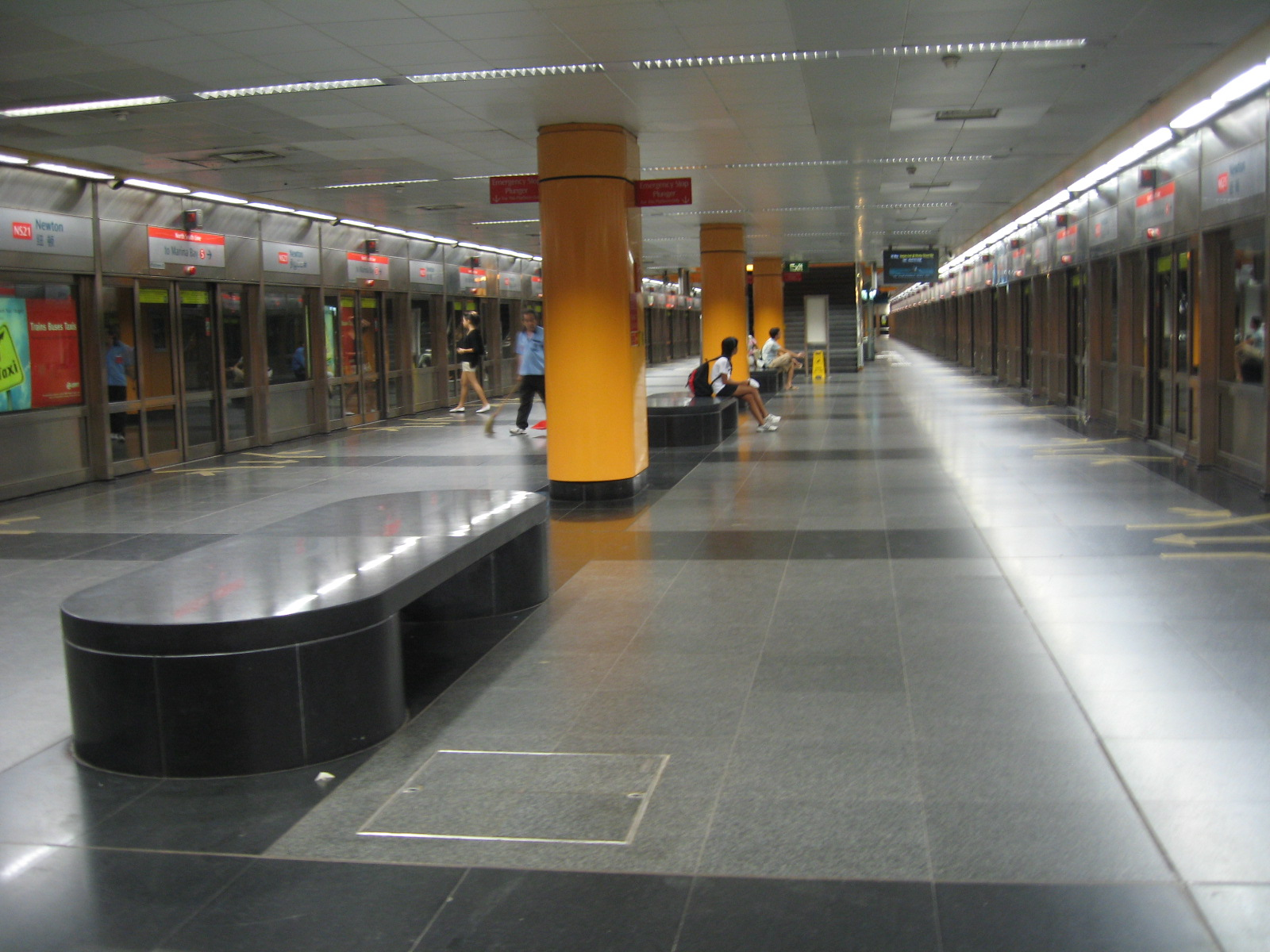 Newton MRT.